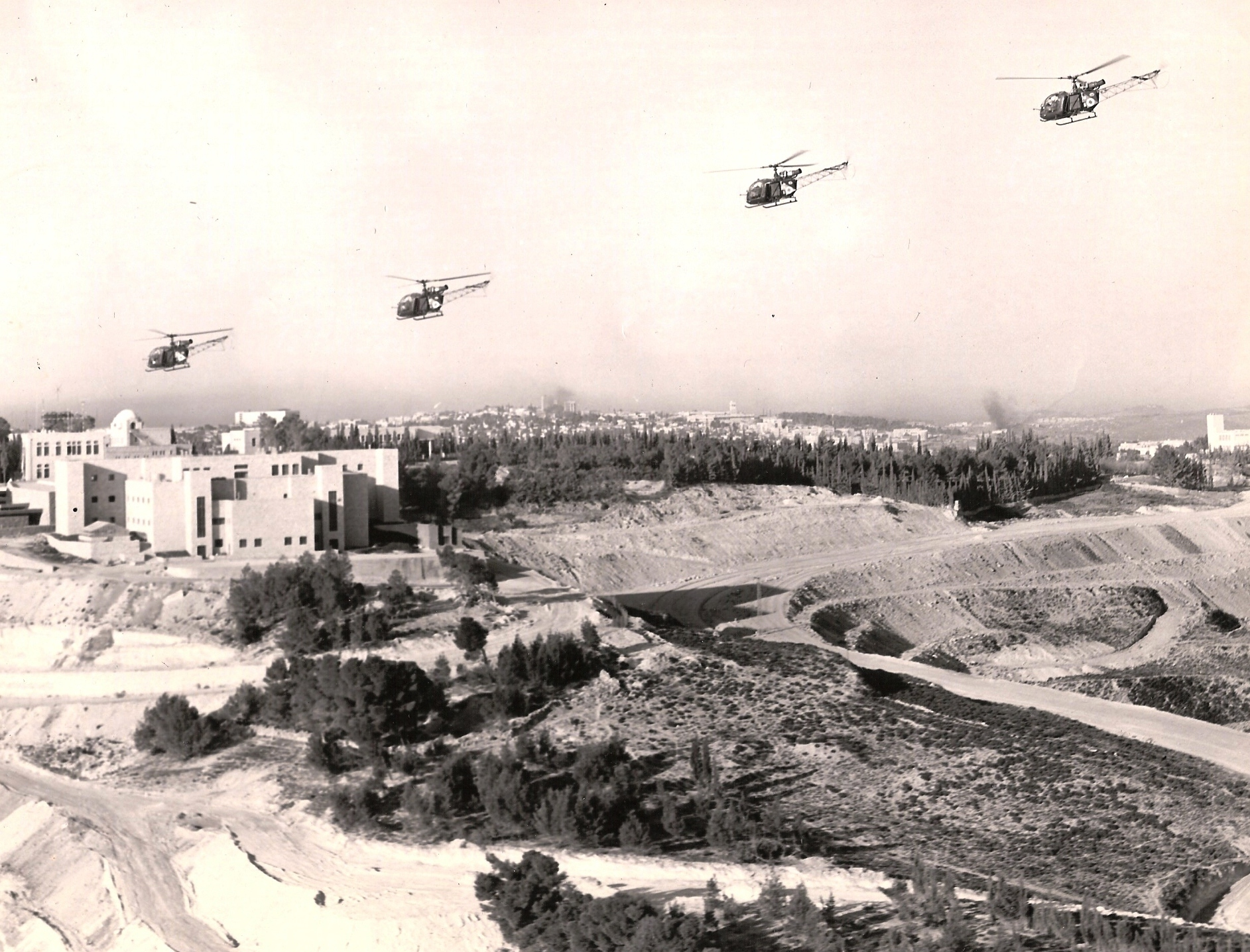 Squadron 125 of the Air Force of Israel flying over Jerusalem.